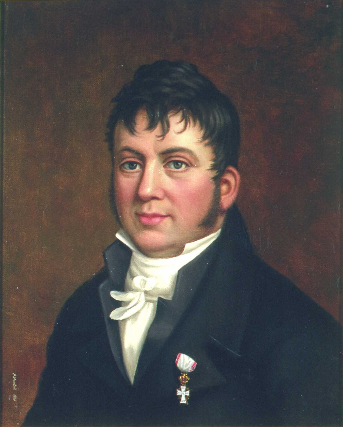 Frederik Schmidt (1771–1840) Danish-Norwegian priest, politician, doctor of theology, poet and diarist. He was represented at the Norwegian Constituent Assembly in 1814. Painting from 1860 by Christopher Pritzier Meidell